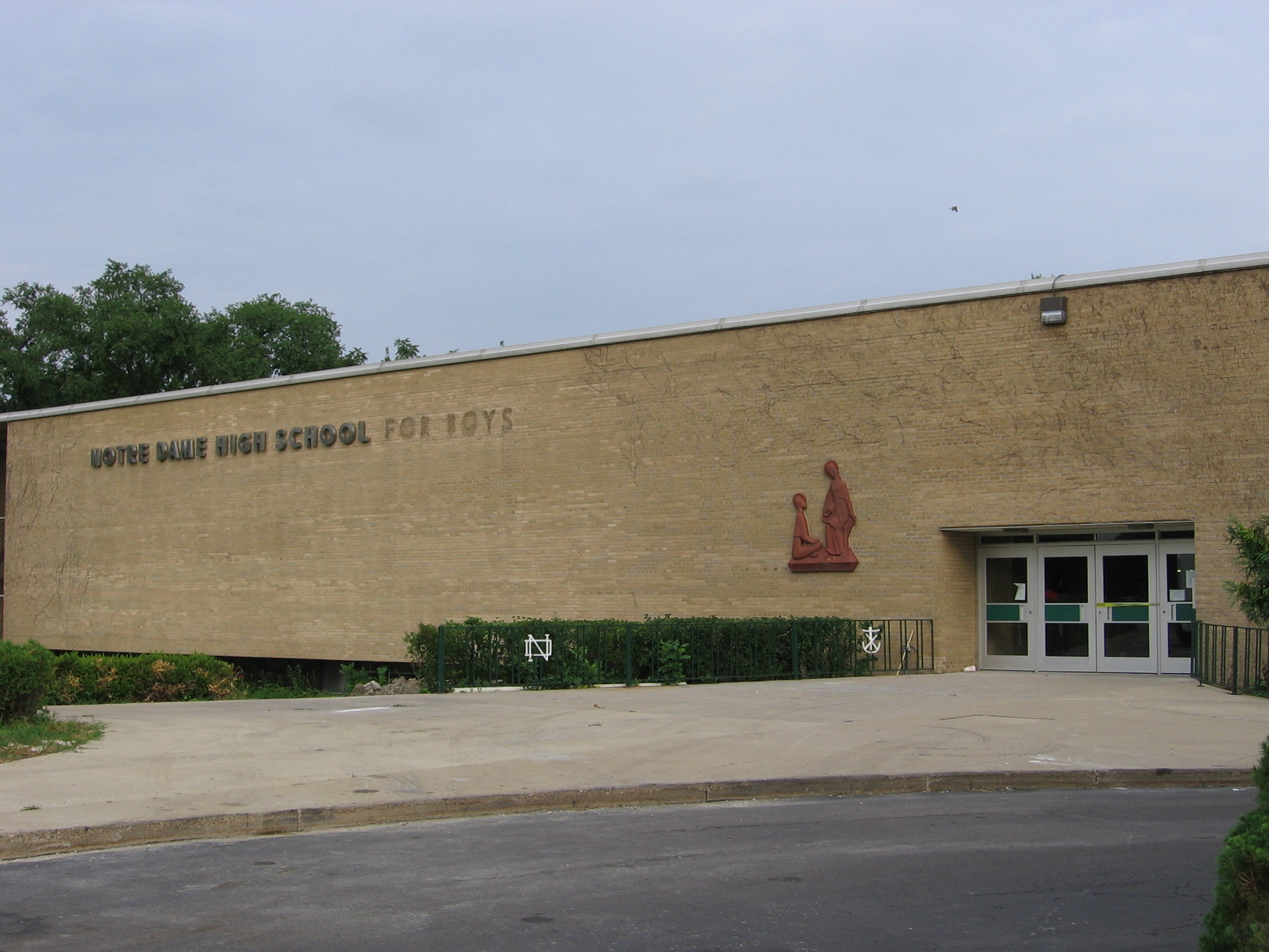 This is a photograph of Notre Dame High School for Boys, a private secondary school in Niles, Illinois.